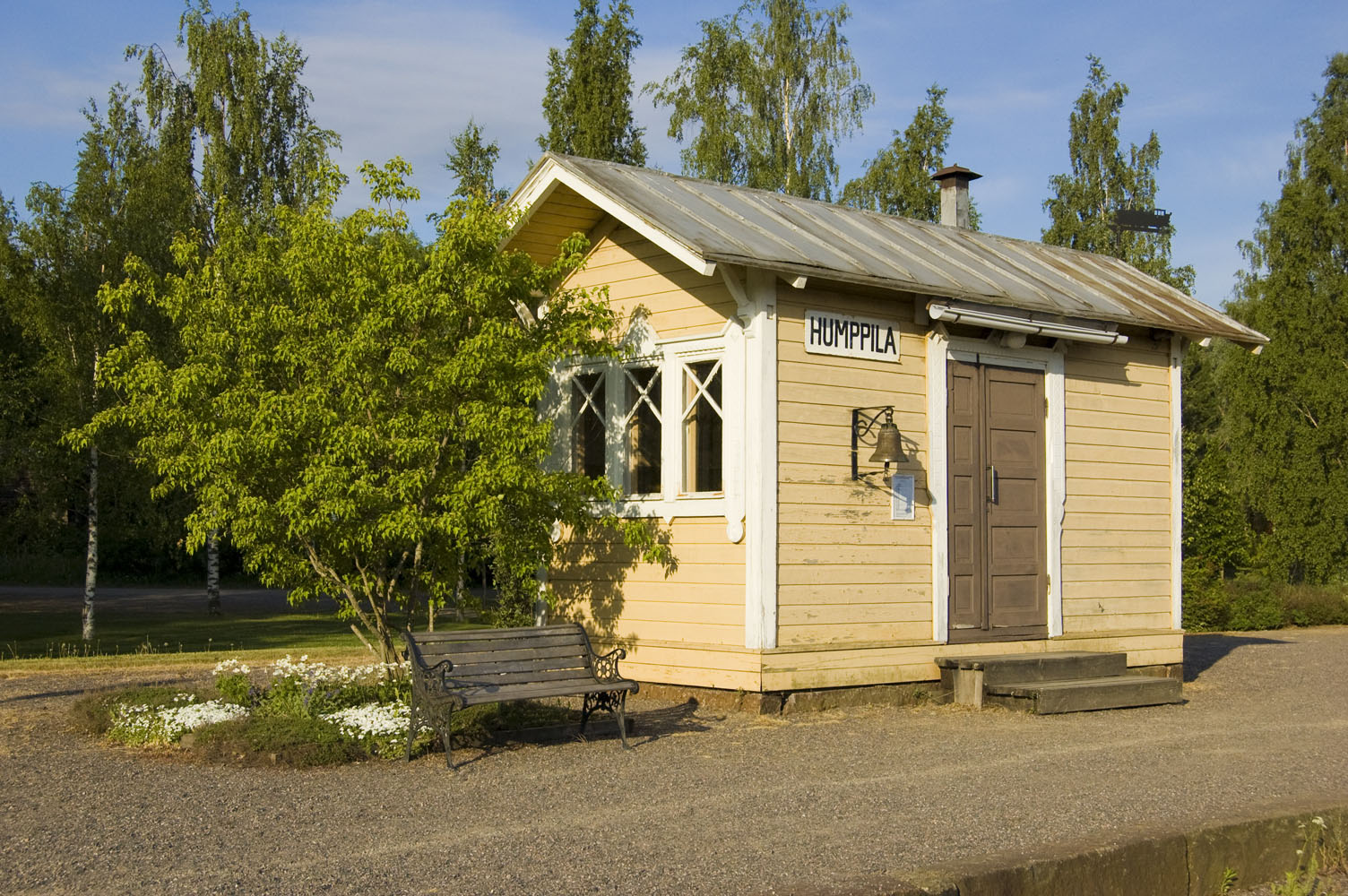 Humppila-Museorautatie, the station building of Jokioinen Museum Railway Humppila station.